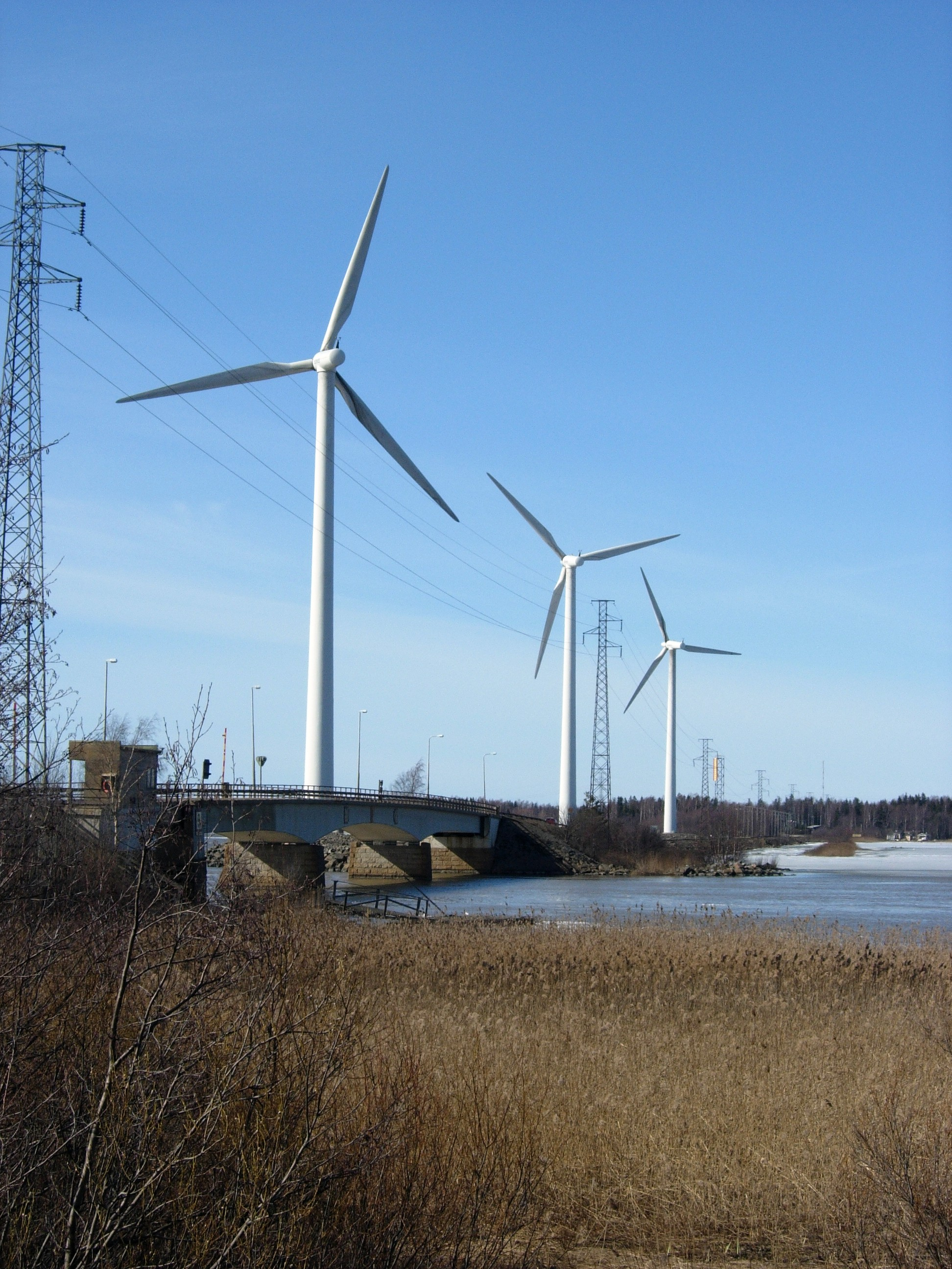 Windmills in Pori, Finland. 1 MW.